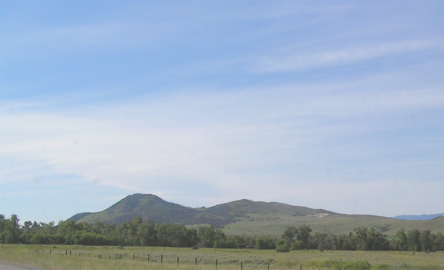 South end of Spokane Bench, east side, just past Winston, MT as seen from US Highway 12